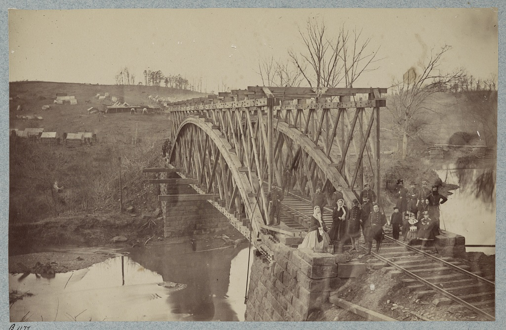 Union Army Truss Bridge across Bull Run on the Orange & Alexandria Railroad built April 1863 under the supervision of General Herman Haupt